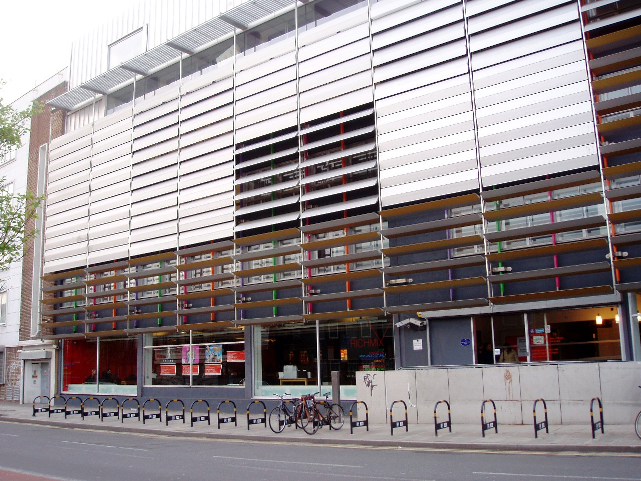 A cultural centre at the top of Brick Lane, with cinemas. Address: 35-47 Bethnal Green Road. Owner: (website) Links: Randomness Guide to London